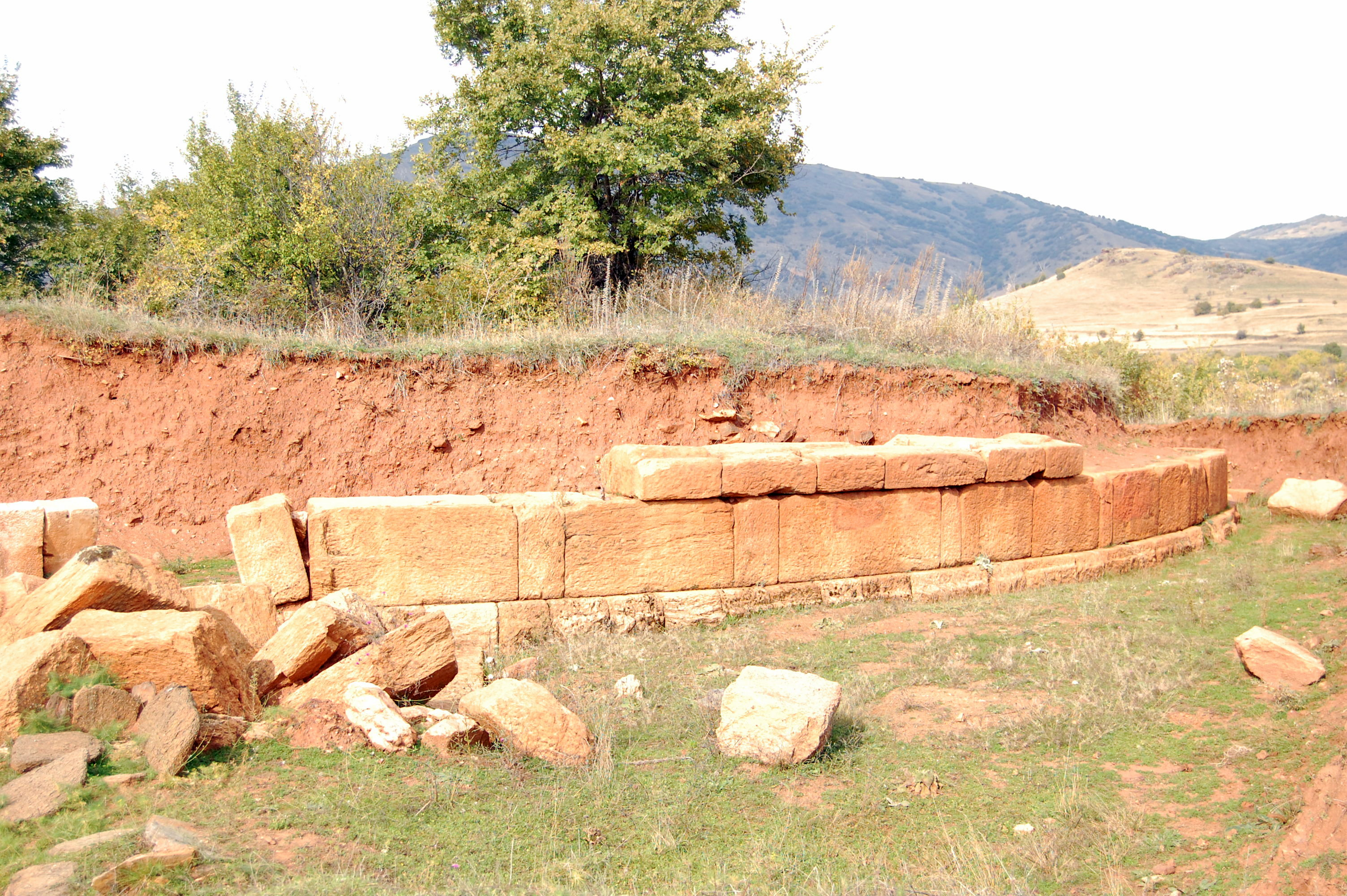 Ancient Macedonian tomb near Bonče, Prilep region, Macedonia